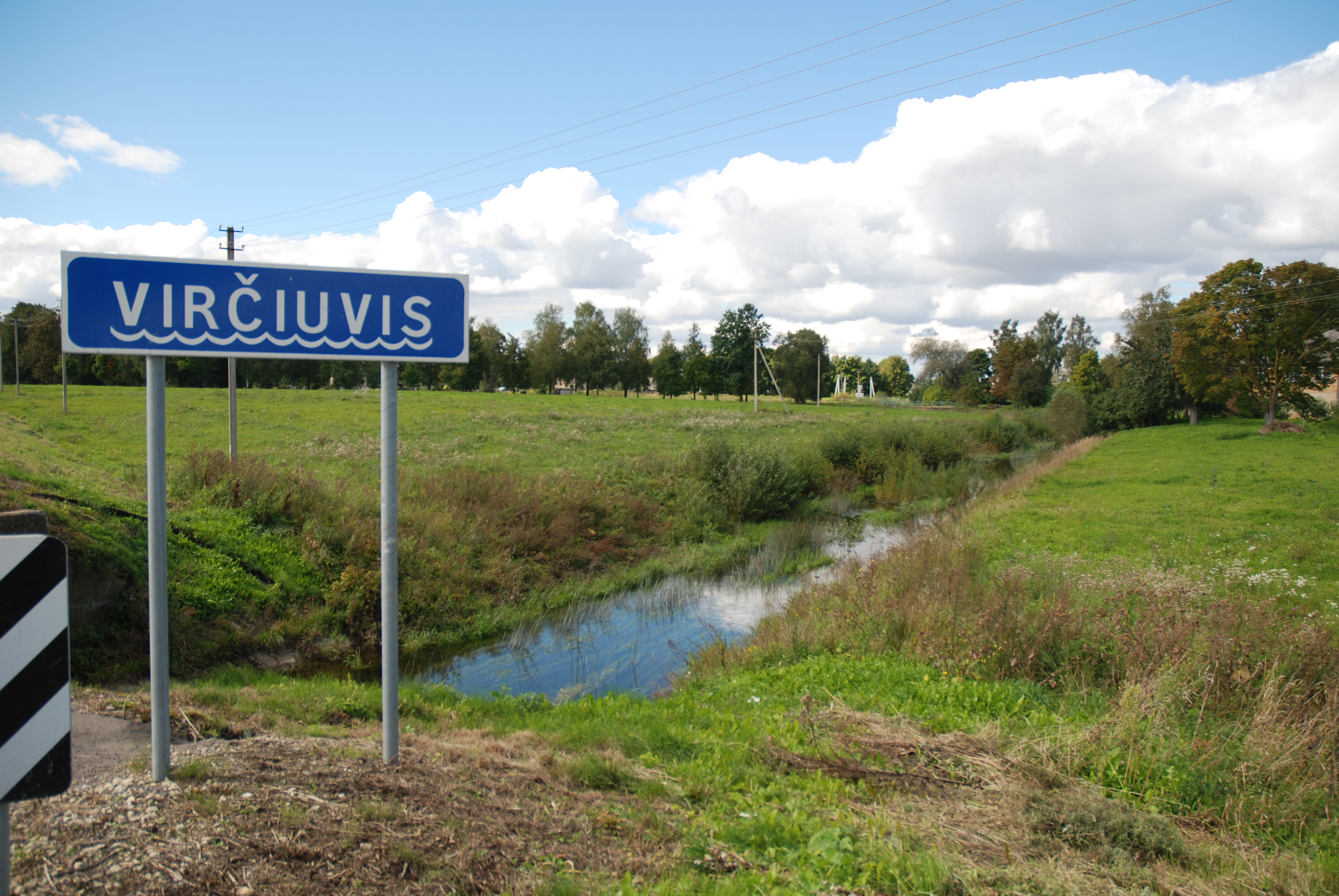 The river of Virčiuvis in Joniškis District